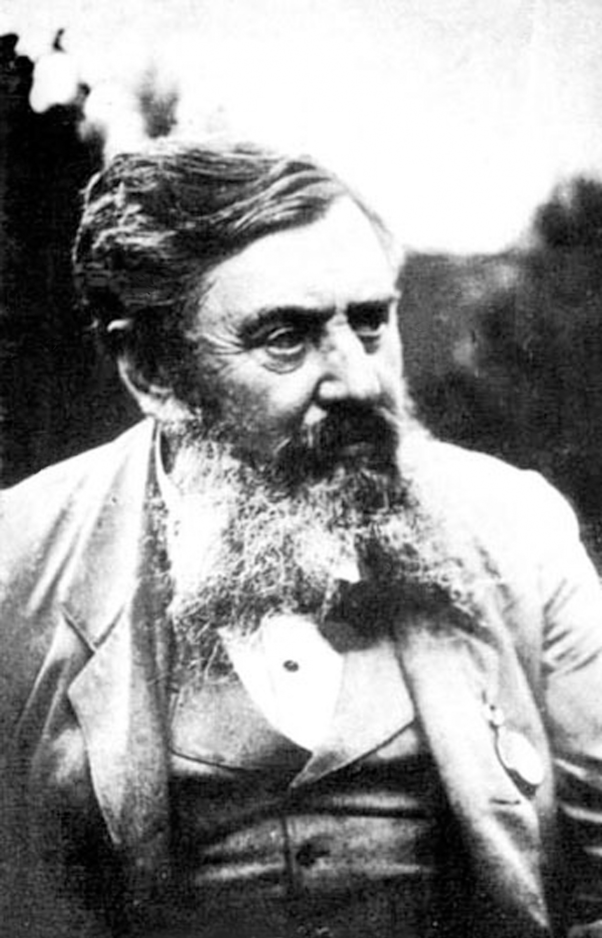 Vladan Đorđević, Serbian politician, in prison.